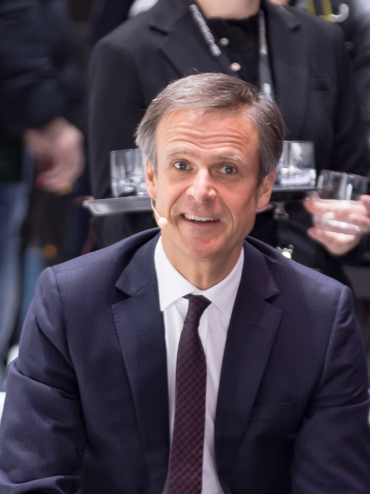 Geneva International Motor Show 2018, Michael Mauer